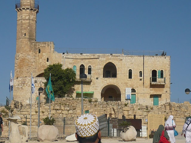 Mosque_Samuel_Nabi